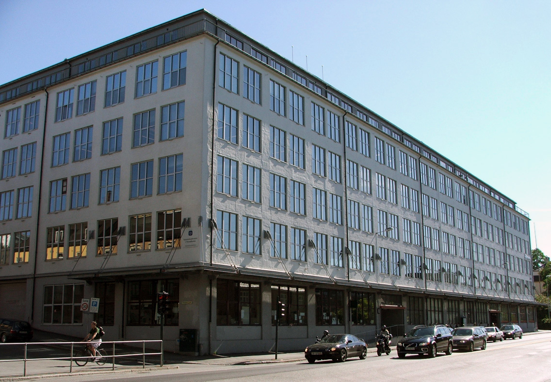 The building at Nedre Elvehavn where the Academy of Fine Art in Trondheim, Norway is situated.